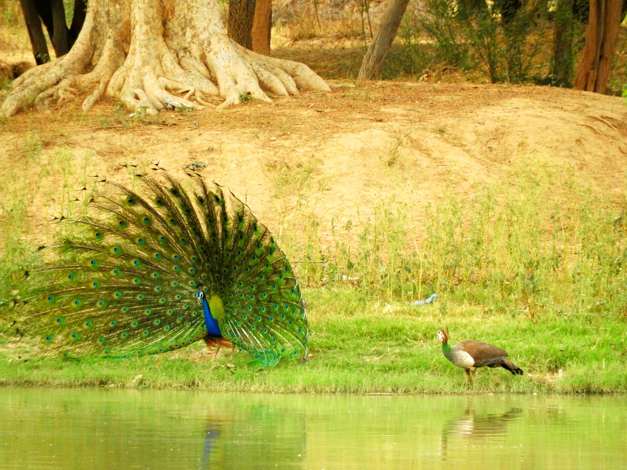 Peacock and peahen during courtship.